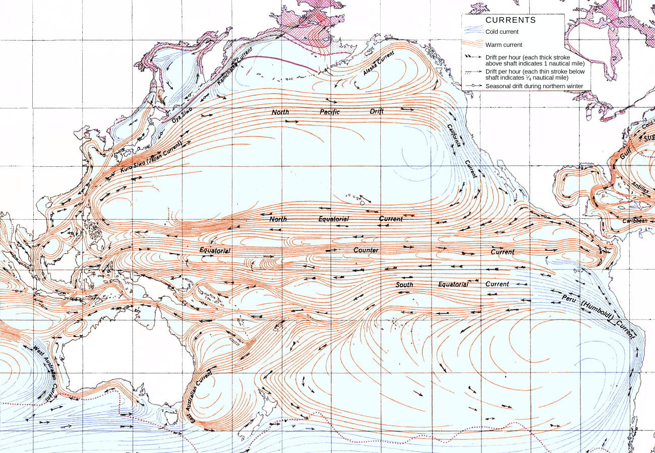 Currents in the Pacific.